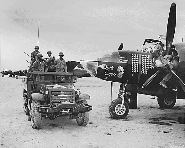 A U.S. Air Force Douglas RB-26C Invader of the 67th Tactical Reconnaissance Wing in Korea, ca. July 1951. Original caption: "Sgt. Ben A. Robertson, Henderson, Texas, from his perch astride the propeller of this Fifth Air Force RB-26 light bomber of the 67th Tactical Reconnaissance Wing, waves a greeting to an anti-aircraft unit on the way to their hill-side positions at an advanced Korean air base. Protecting this airstrip from enemy air attack is the 24 hour duty of this, and other anti-aircraft crews., ca. 07/1951."